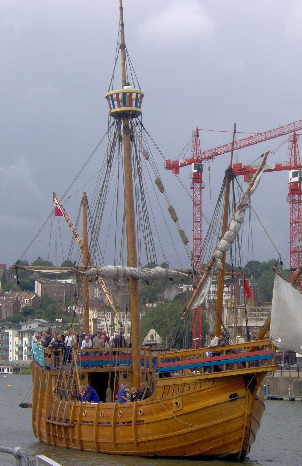 The Matthew in Bristol Harbour.